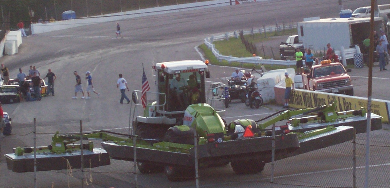 A Claas Cougar 1400 self-propelled mower unit (equipped with Claas Disco 8550 and Disco 8700 disk mowers, obviously) at the Wisconsin International Raceway stockcar races near Kaukauna.